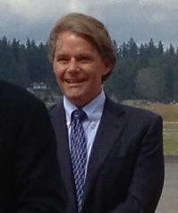 New to Portland, Virgin America Airlines celebrated it's first flight into our city.